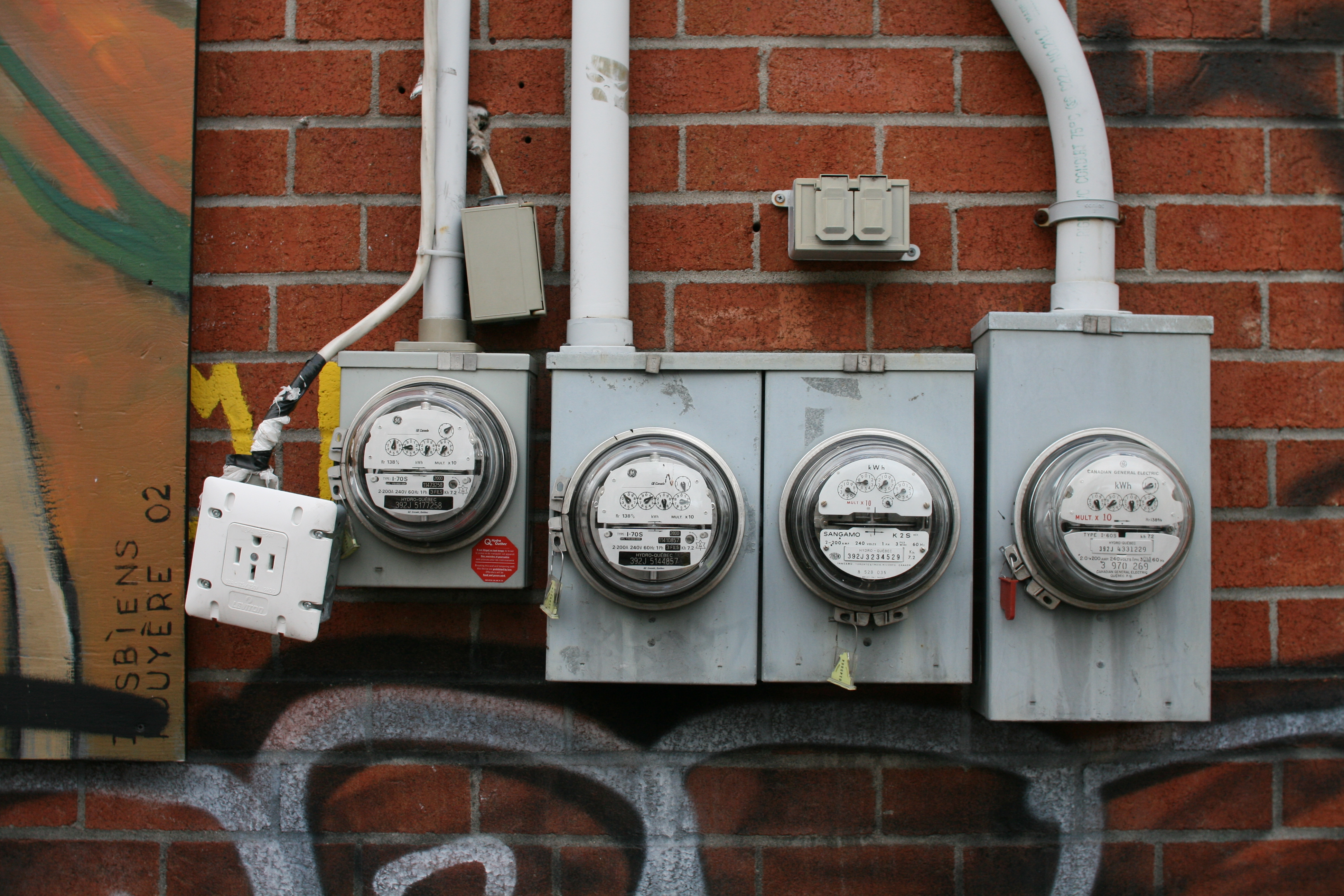 Electricity meters, in Montreal.